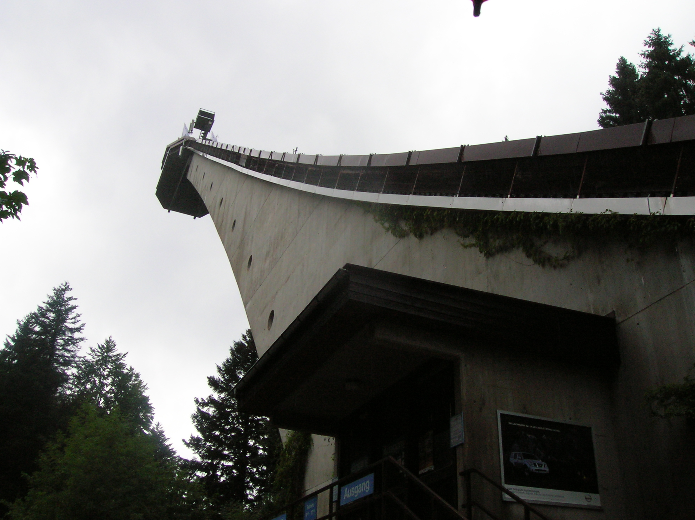 Heini-Klopfer-Skiflugschanze, Oberstdorf, Germany